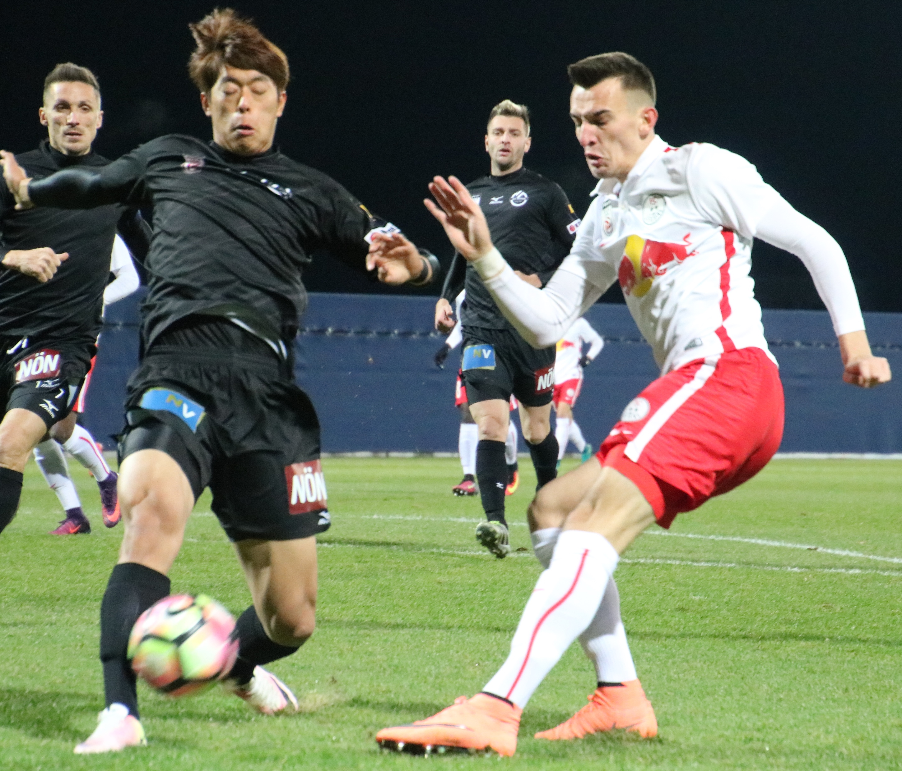 league match Austria 2nd league